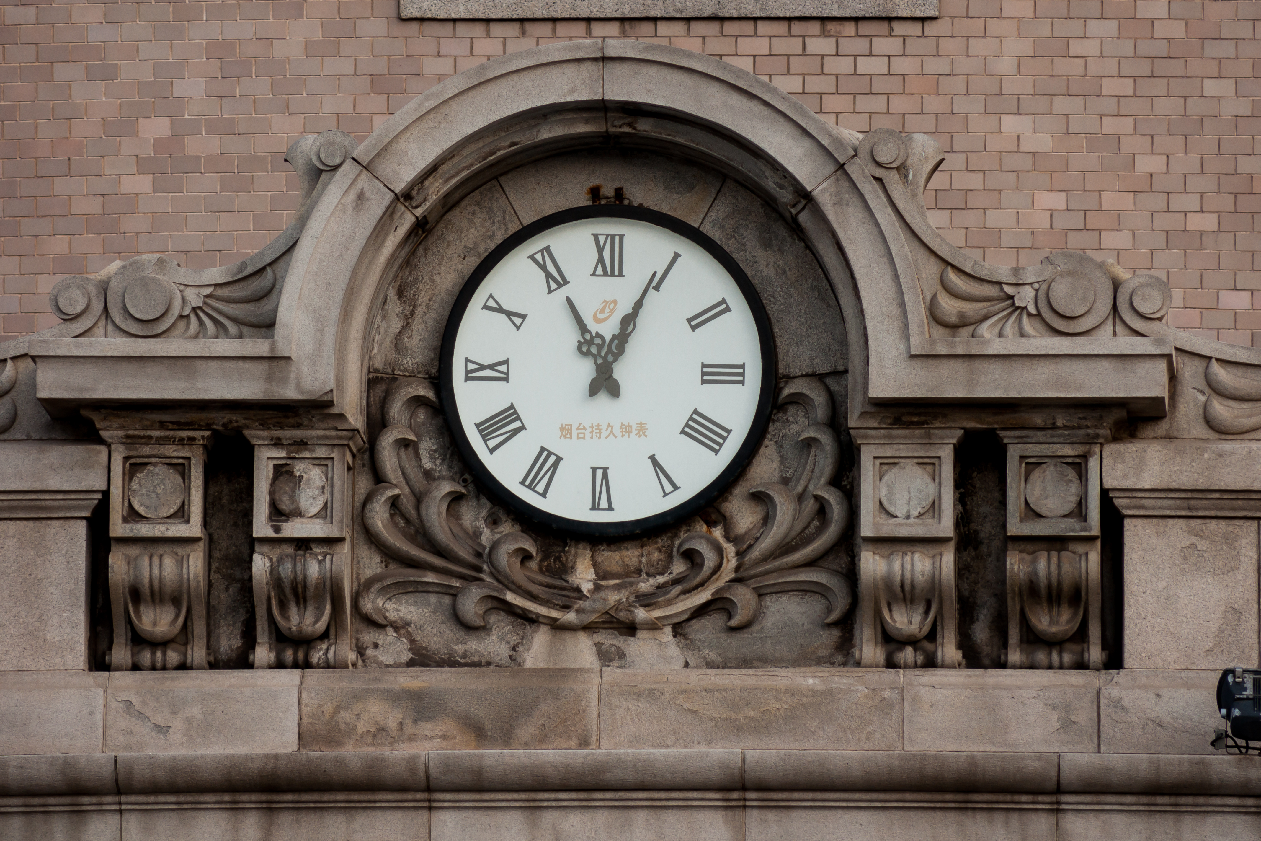 Dalian Liaoning China: Public clock at the customs office in Dalian harbour.